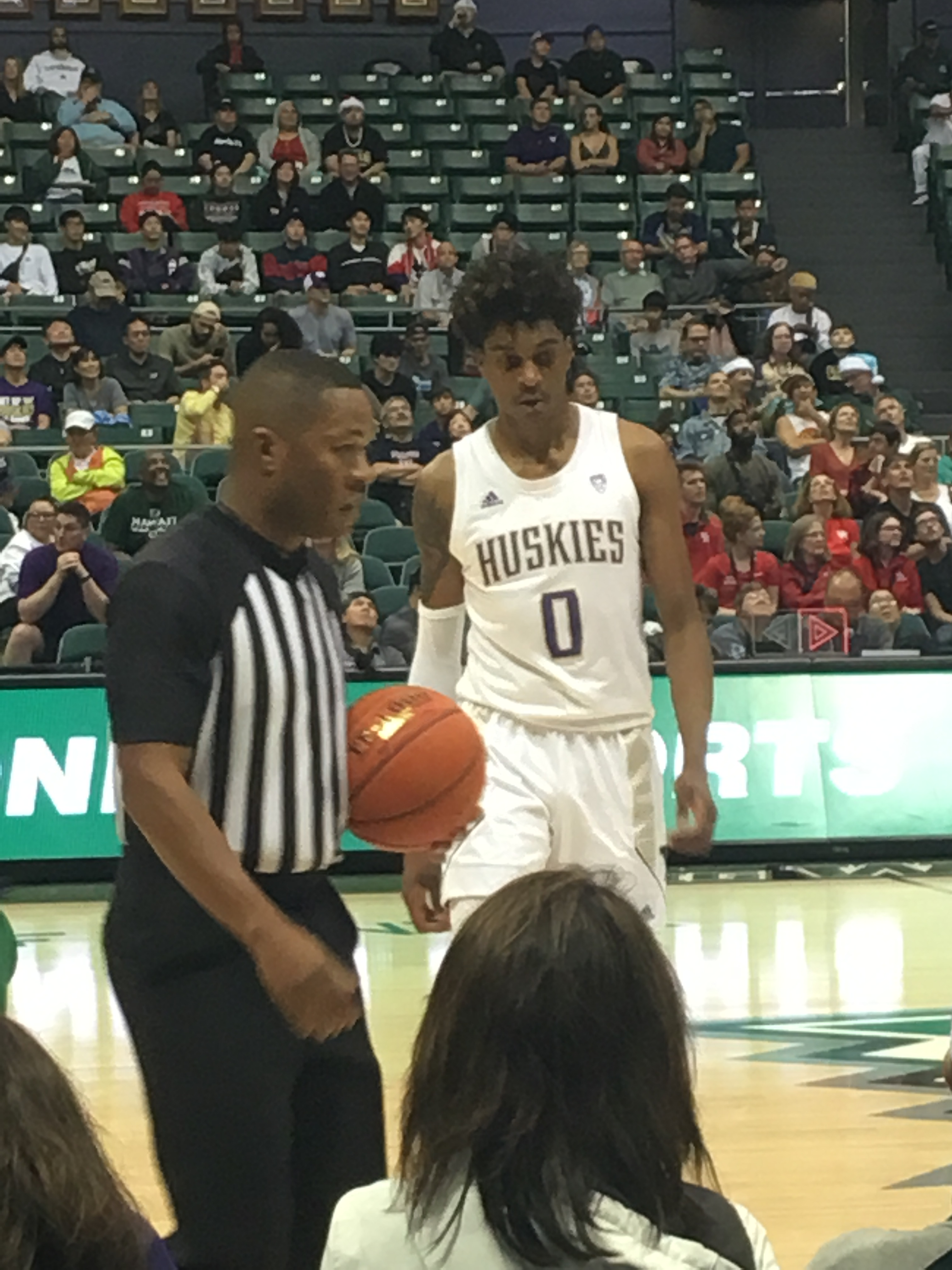 Jaden McDaniels at the 2019 Hawaiian Airlines Diamond Head Classic